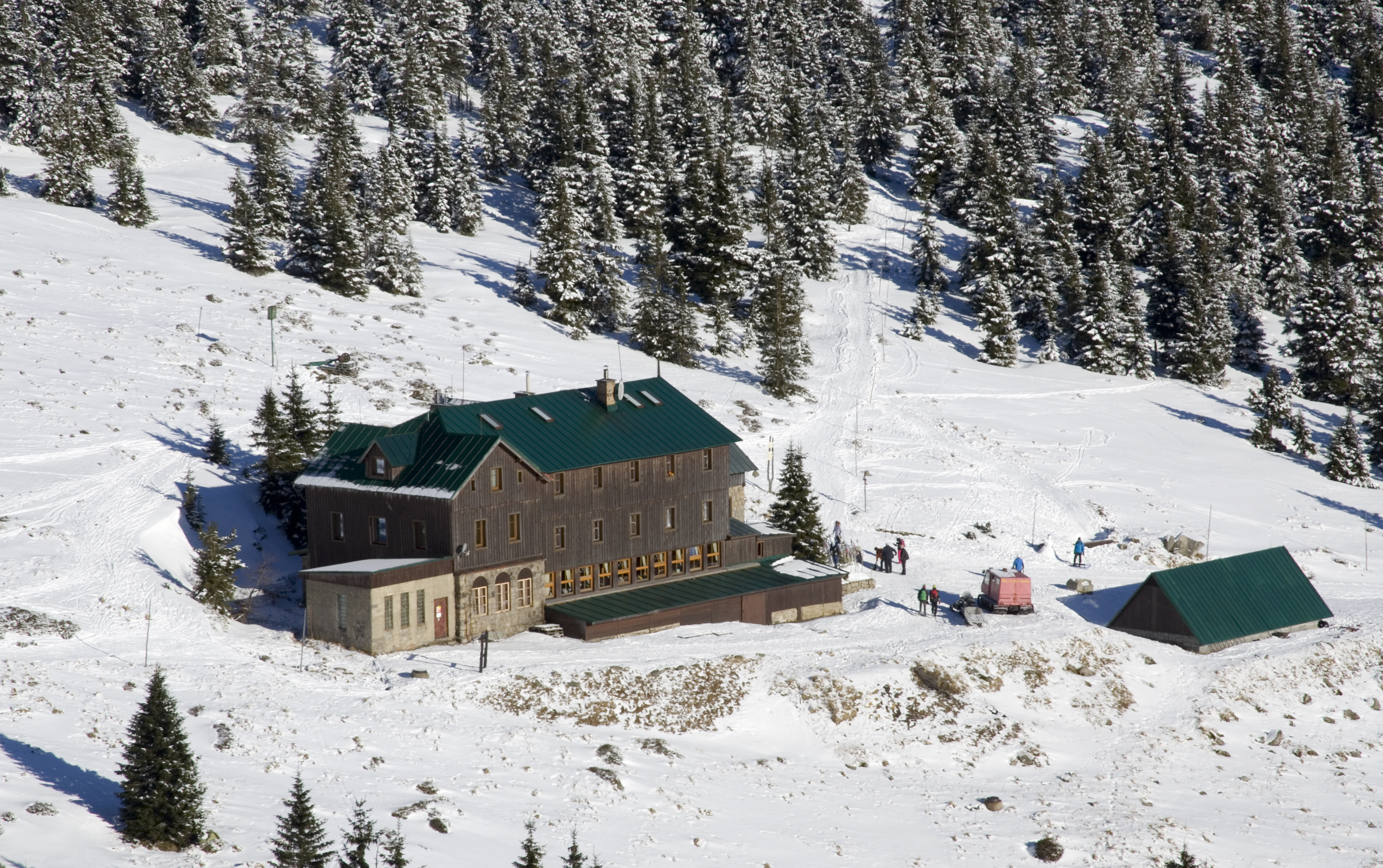 Martin's Chalet in Karkonosze mountains